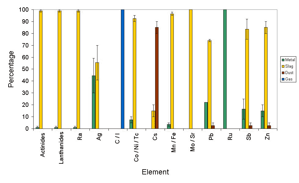 Fate of impurty metals in copper scrap in a furnace, this was madeusing the same literature data as was used for the ferrous scrap diagrams.